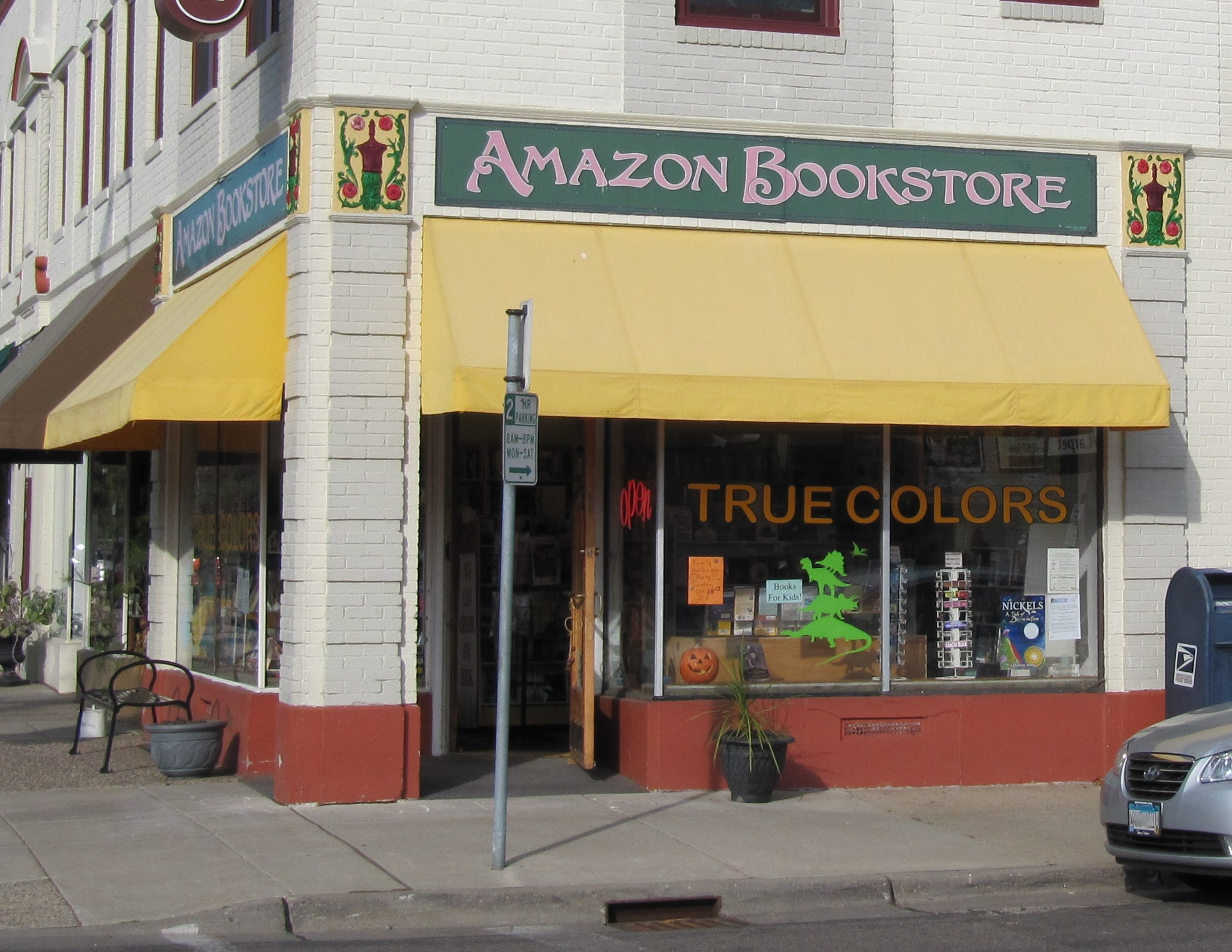 This 2011 photo of True Colors Bookstore (formerly Amazon Bookstore) at its 4755 Chicago Avenue South location shows both its earlier name of Amazon Books and its later name of True Colors Bookstore. This photo was taken on October 22, 2011 using a Canon PowerShot SX200 IS.